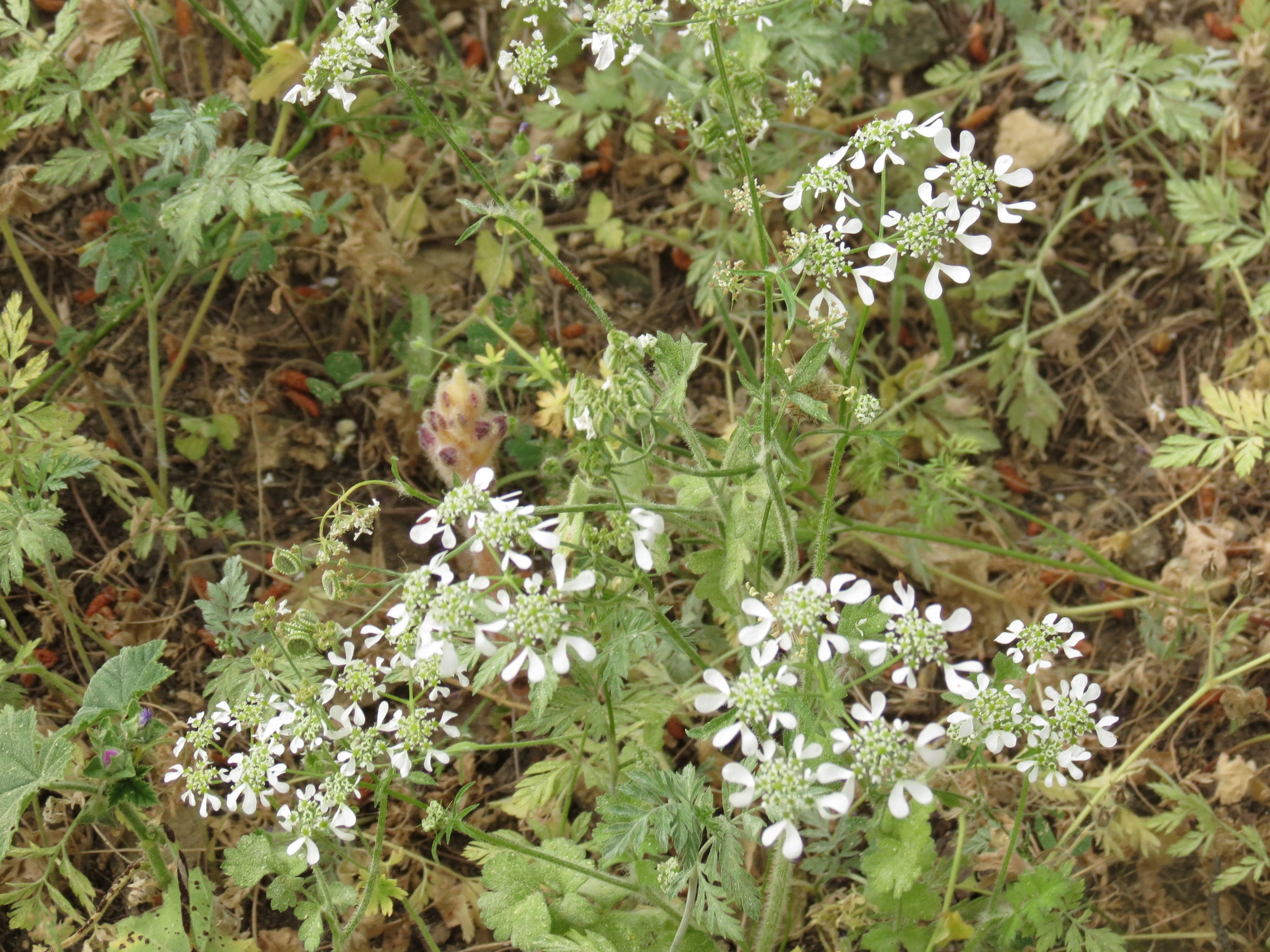 Tordylium apulum L., Mount Lycabettos, Athens, Greece, 3 April 2014